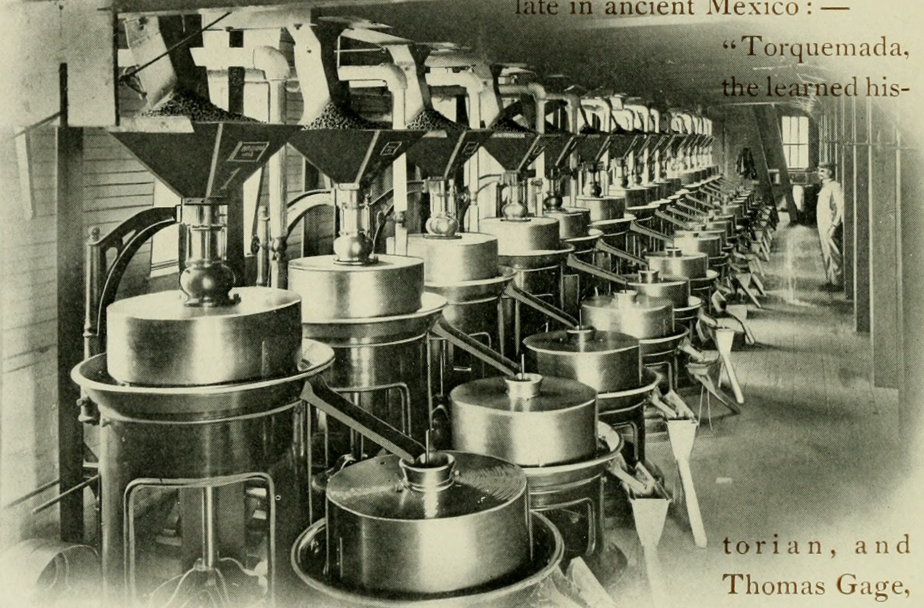 Title: Cocoa and chocolate, a short history of their production and use Year: 1907 (1900s) Authors: Walter Baker & Company; Bugbee, James M. (James McKellar), 1837-1913 Subjects: Cocoa; Chocolate; cbk Publisher: Dorchester, Mass. , Walter Baker & co. , limited Text Appearing Before Image: 28 COCOA AAV CHOCOLATE. for its heighth, large Leaves and Fruit; the next is the Xochucaual, which is less than the former; and lastly, the least sort, which is call'd Halcacahual. The Fruit of these four sorts of Trees, though differing in shape, yet is all one in power and operation." M^i^^^liyfflaadL^eniSj^in " La Legende du Cacahuatl," makes the foljIP^nng interesting statenieiii in regard to the preparation of choco- late in anycient Mexico : — "orciueinada, id iiis- Text Appearing After Image: GRINDING ROOM IN ONE OF WALTER BAKER & CO.'S MILLS. n , and Thomas Gage, the conscientious traveler, agree in telling us that /lol chocolate was an invention of the Castilians. The first of these writers, who lived at the end of the sixteenth century, says so positively ; in his time it had been used for only a few years. " Would you know now what chocolate was when the learned Antonio Colmenero de Ledesma • gave his receipt ? I copy it for you here : — « Colmenero de Ledesma (Antonio) Chocolata Inda Opsisculum de qualitate & Natura Cliocolae.T, izmo Xovimberg;t, 1644.